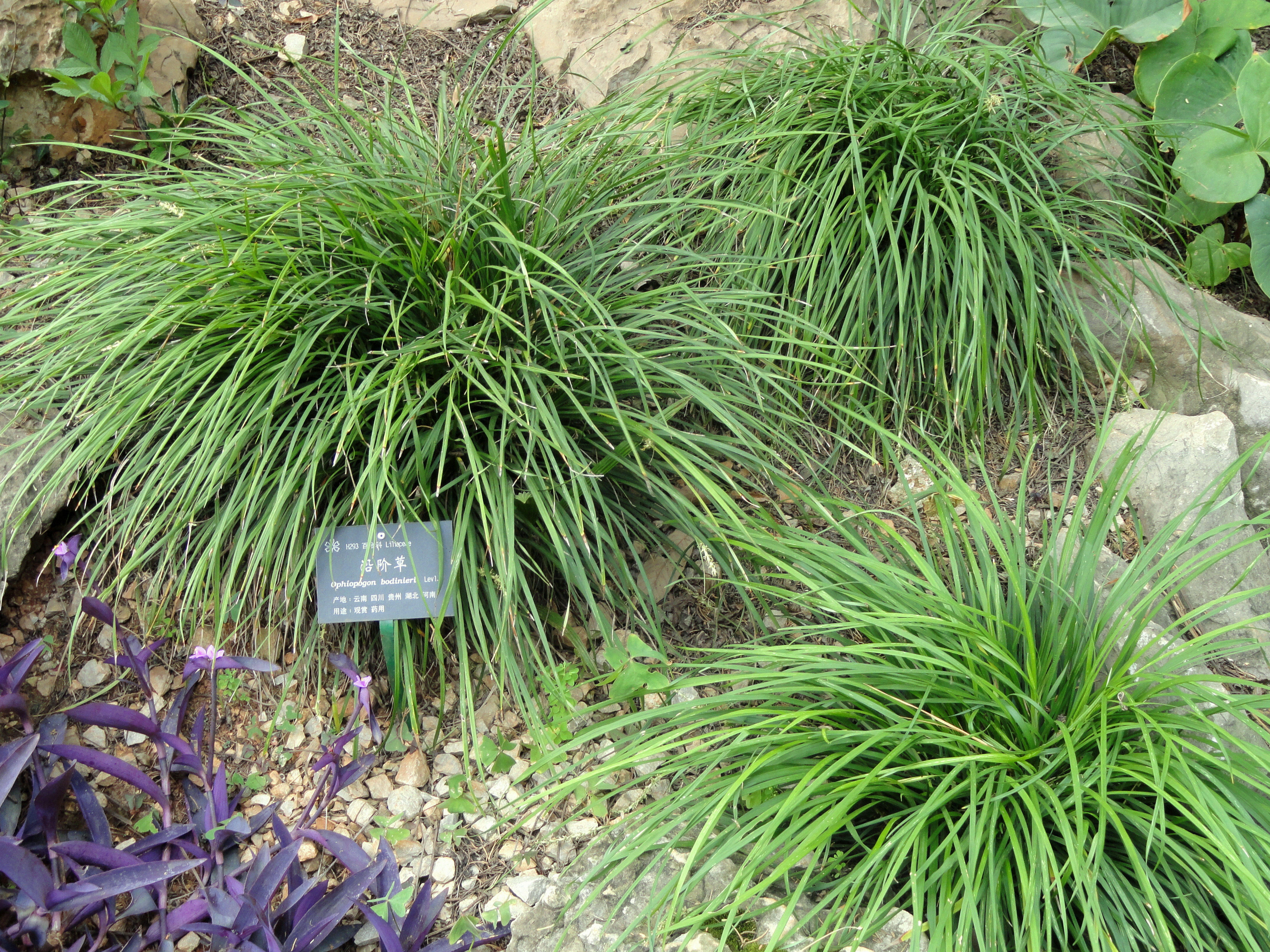 Plant specimen in the Kunming Botanical Garden, Kunming, Yunnan, China.